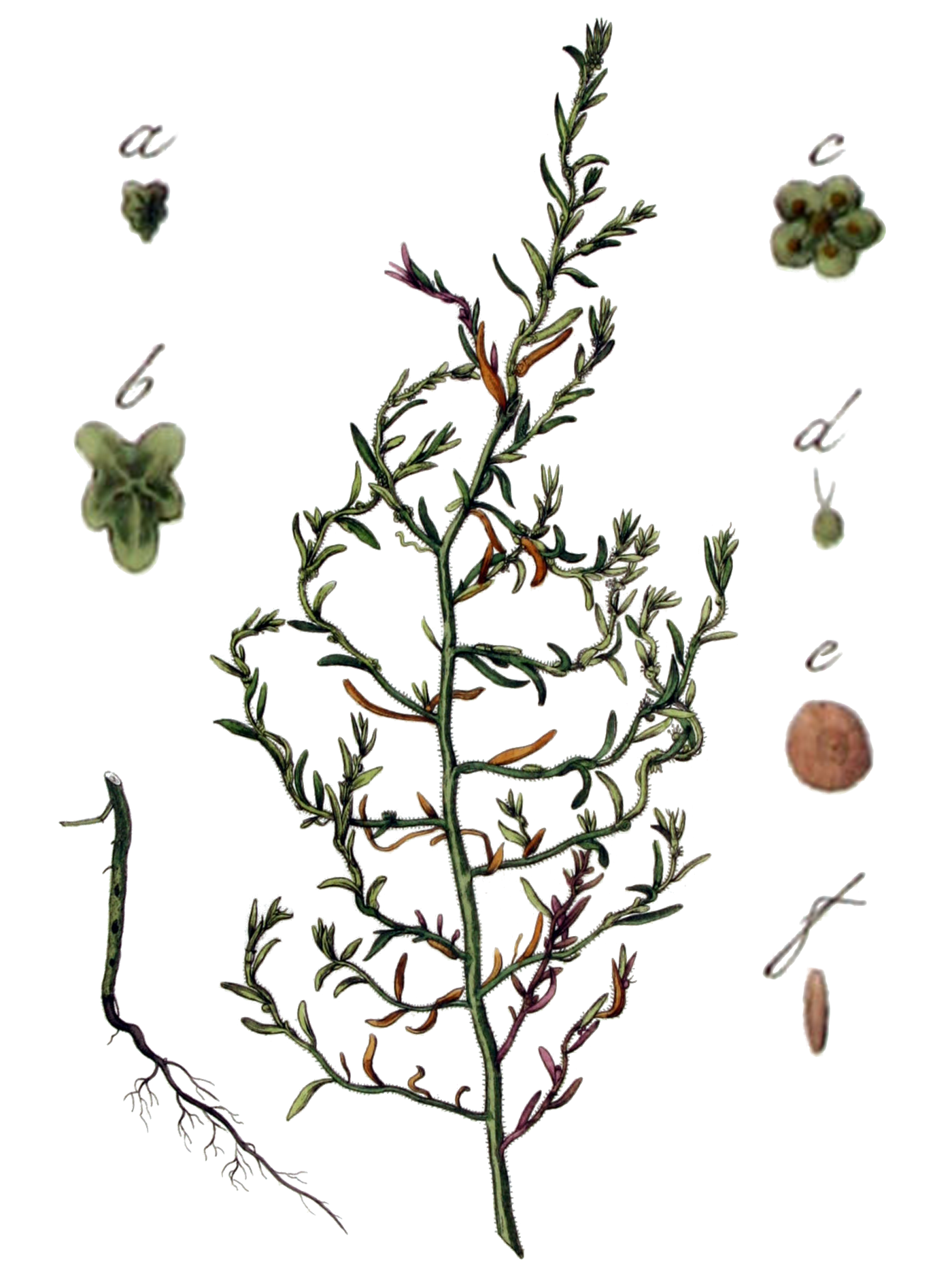 Spirobassia hirsuta (L.) Freitag & G.Kadereit, 2011 (Syn. Chenopodium hirsutum L., Bassia hirsuta (L.) Aschers.)